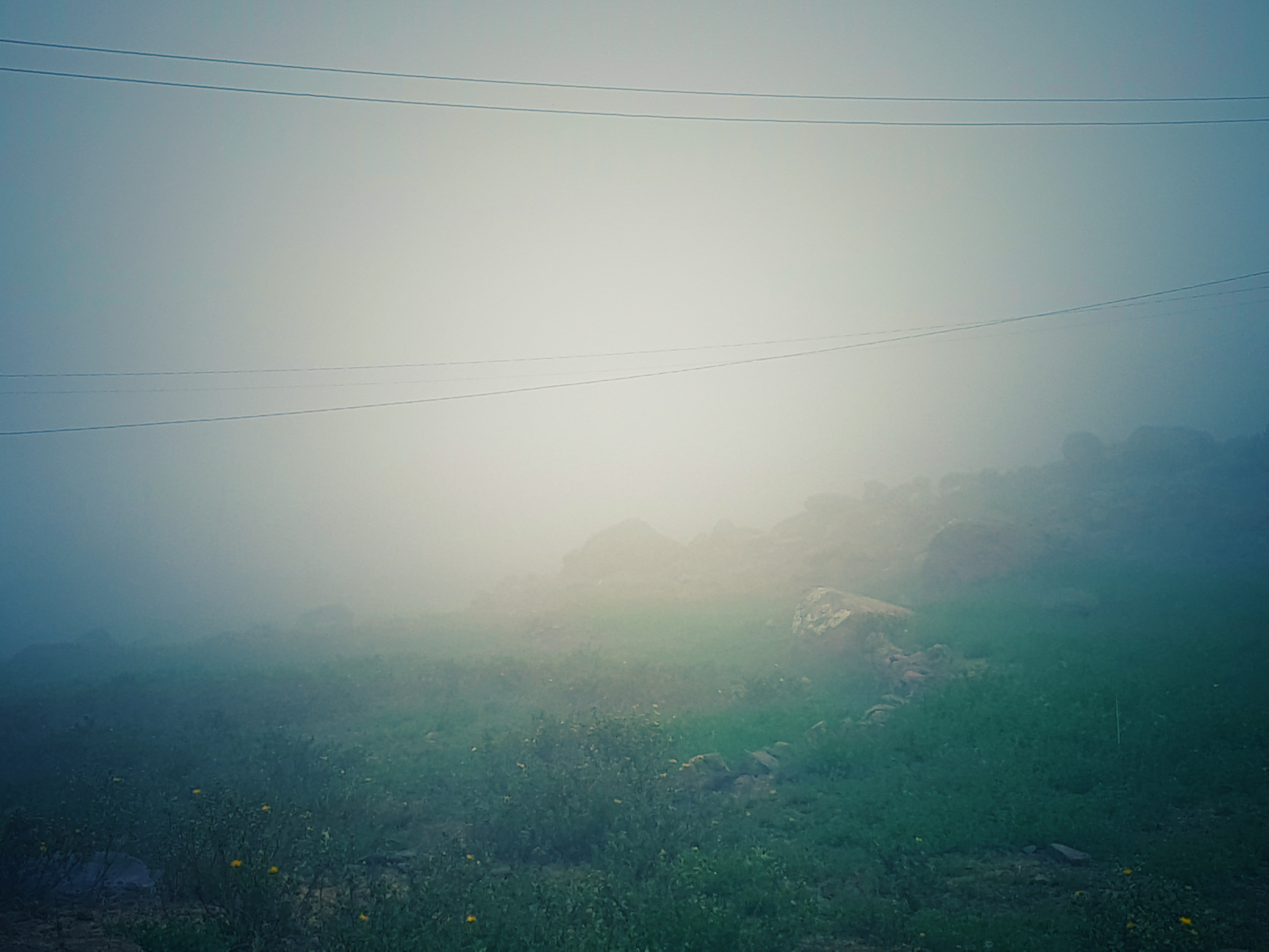 Fog on the slopes of Candarave